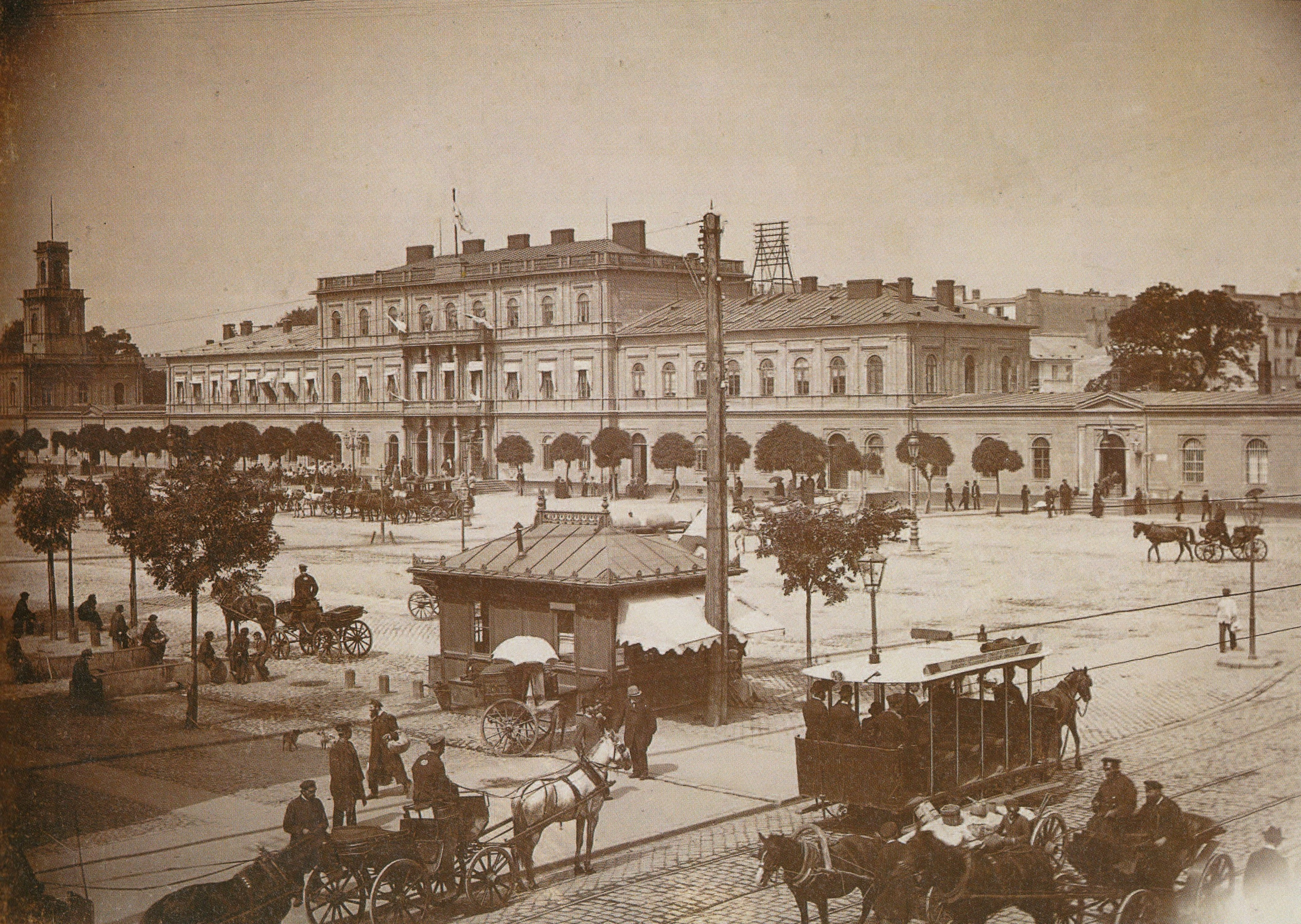 Vienna Railway Station in Warsaw